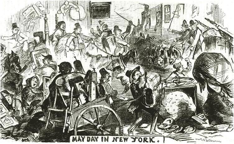 Cartoon depicting Moving Day (May 1) in New York City in 1856